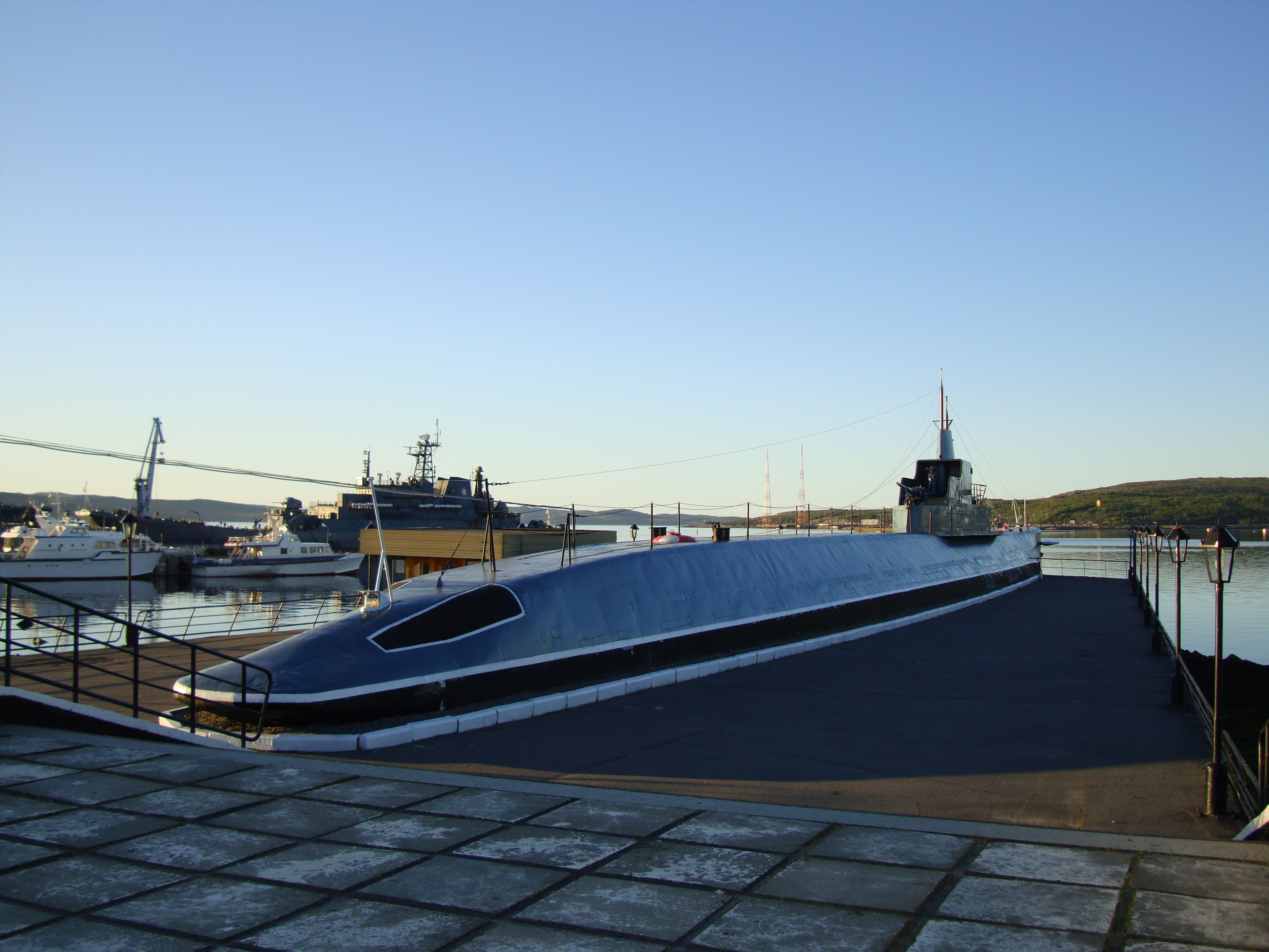 K-21, the WWII era Soviet K-class long range submarine displayed at the central square of Severomorsk, Murmansk Region, Russia, being a part of the Northern Fleet Naval Museum. In July 1942, K-21 attacked German battleship Tirpitz while guarding the PQ-17 convoy.